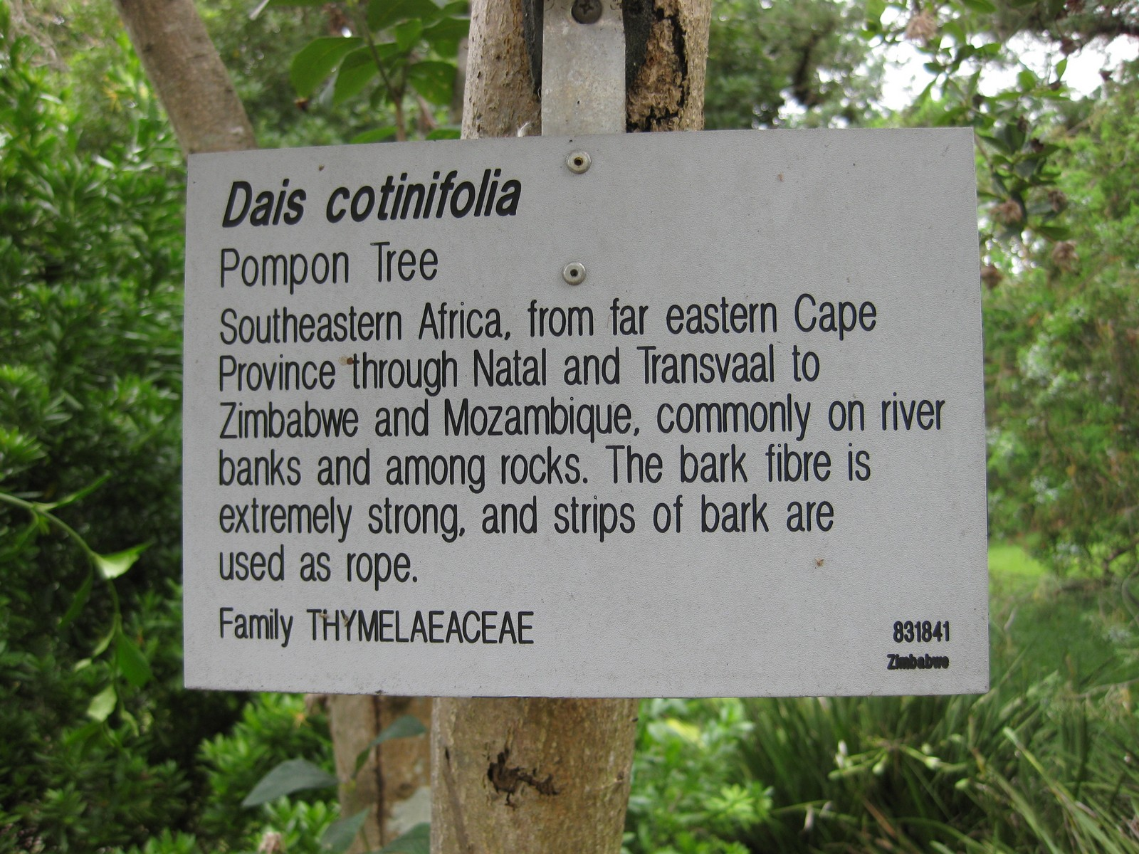 Photographed at the Royal Botanic Gardens Sydney (Australia) in January